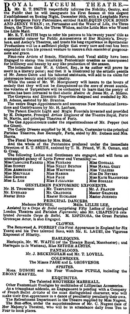 Classified advertisement for an early stage work by W. S. Gilbert, scanned from The Era, 15 December 1867, p. 8